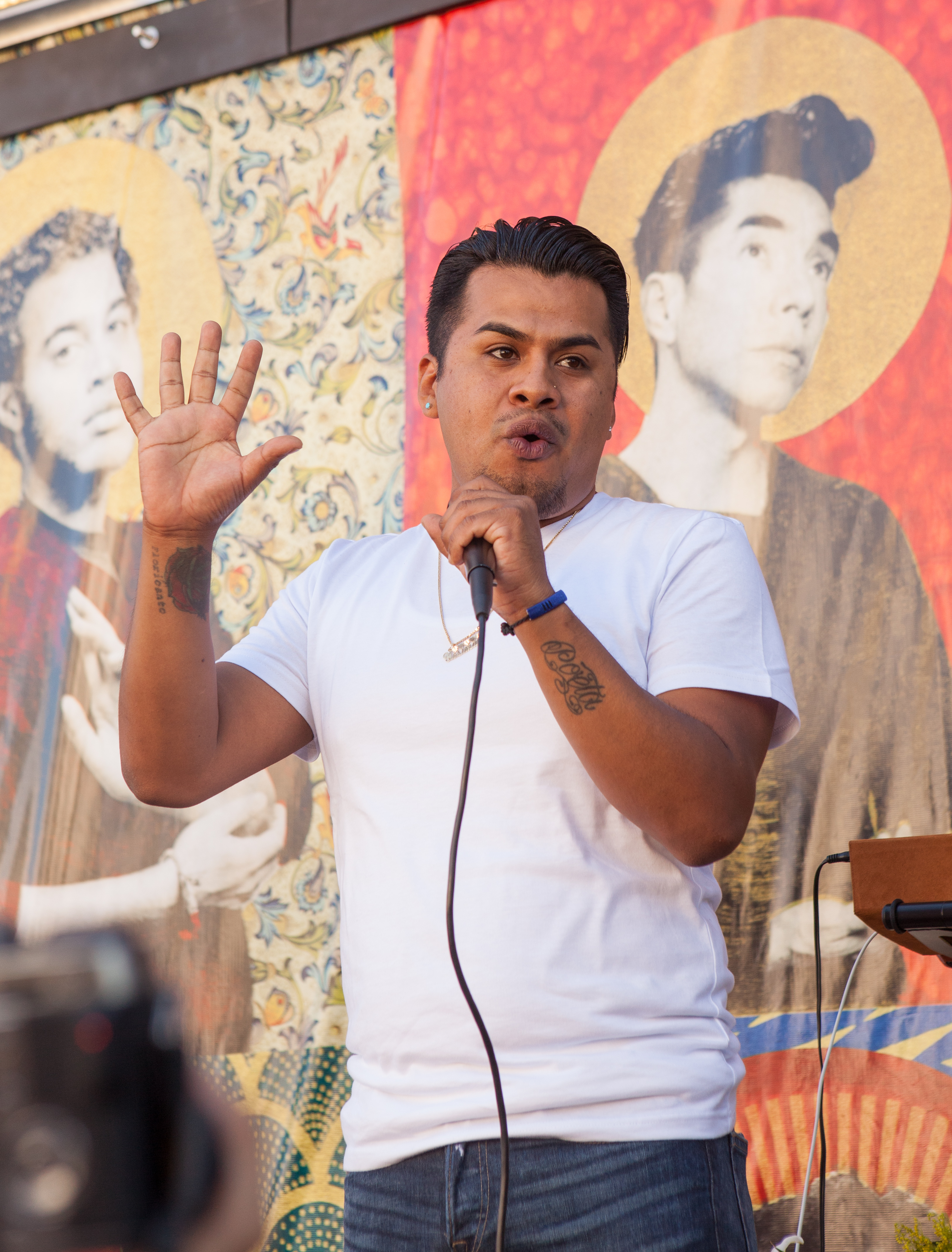 Yosimar Reyes performs spoken word at a Latinx-led San Francisco memorial for the victims of the 2016 Orlando massacre.